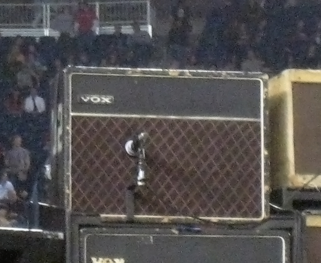 The Edge of U2's original VOX AC30 guitar amp, picture taken in Foxboro, Massachusetts.